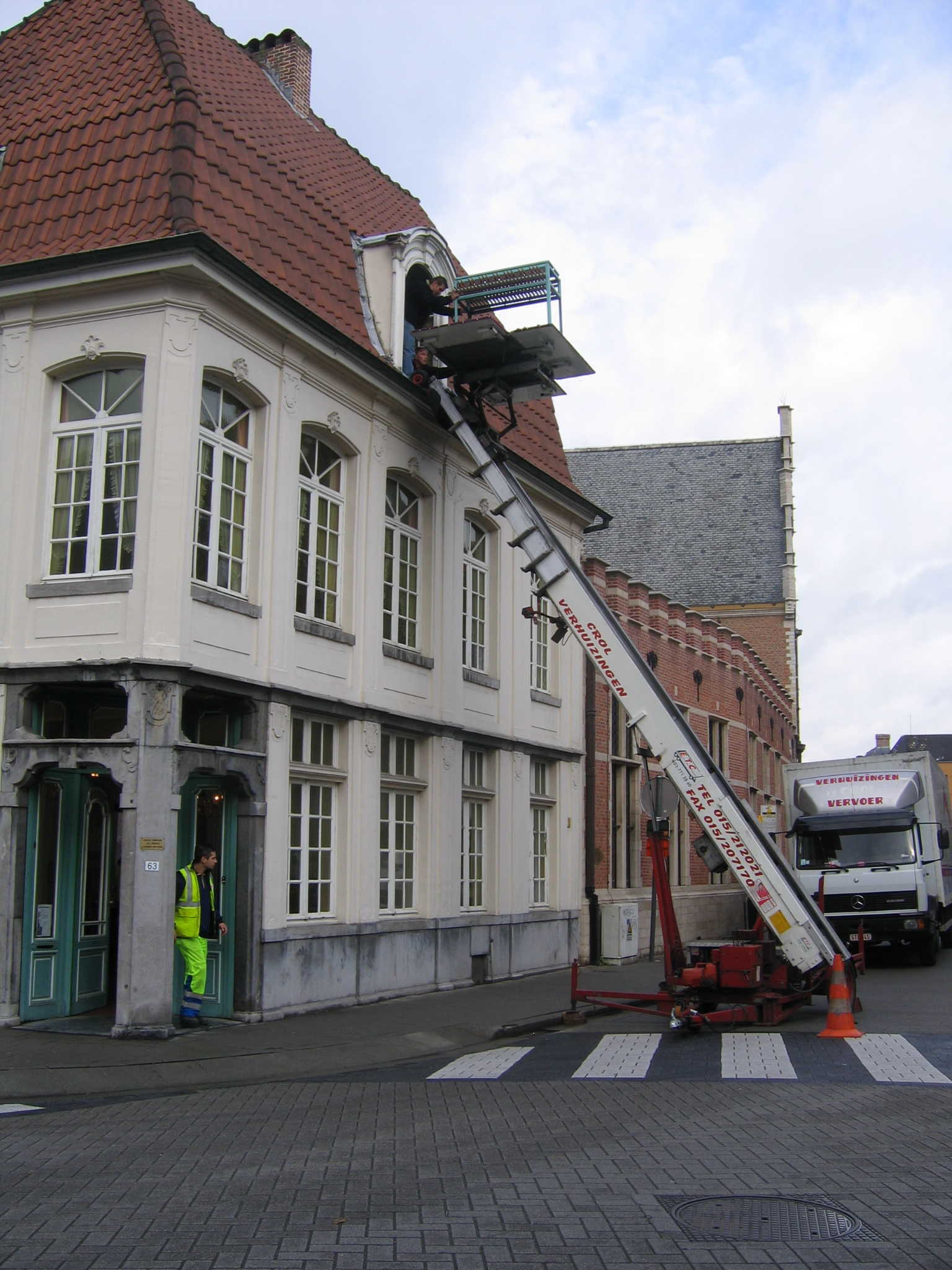 Old carillon practice keyboard being removed from the Royal Carillon School "Jef Denyn" for replacement on October 25, 2005. Photo by Royal Carillon School alumna Tiffany Ng of an old practice carillon being lifted out of the school by municipal workers for replacement on October 25, 2005.